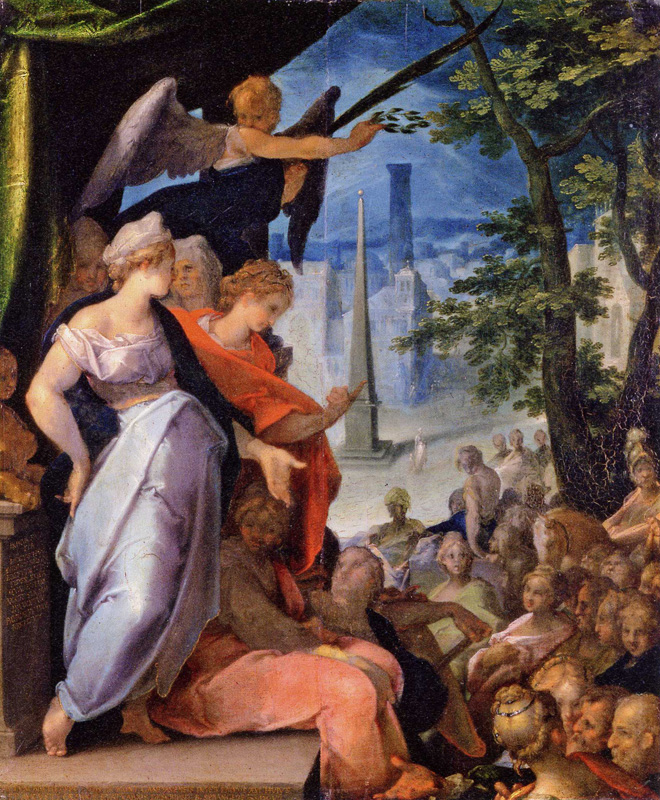 Allegory on the Fate of Hans Mont, by Bartholomeus Spranger (1607) 52.5 x 43.5 cm, oil on copper Prague Castle Picture Gallery